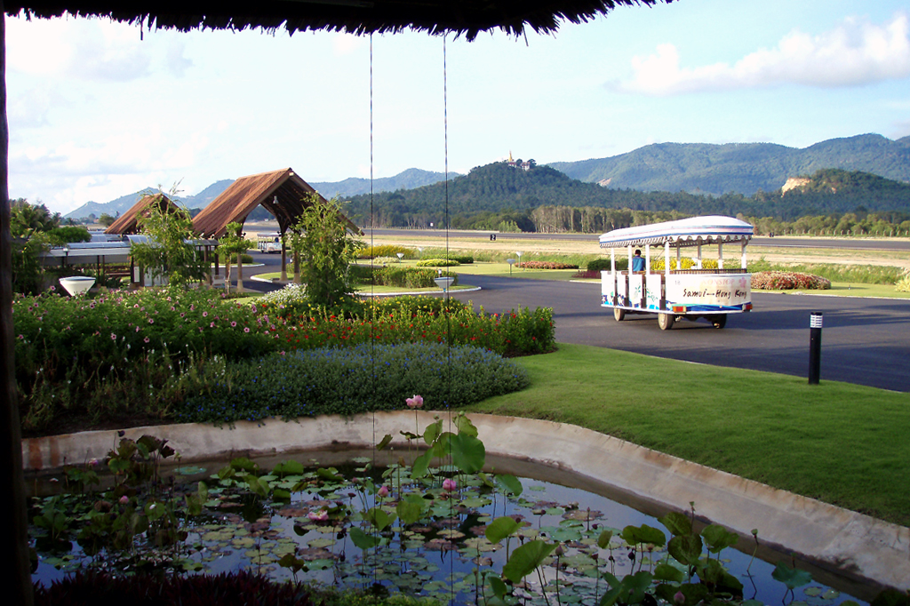 The gates and the runway at Big Buddha Airport (USM), Koh Samui, Thailand.